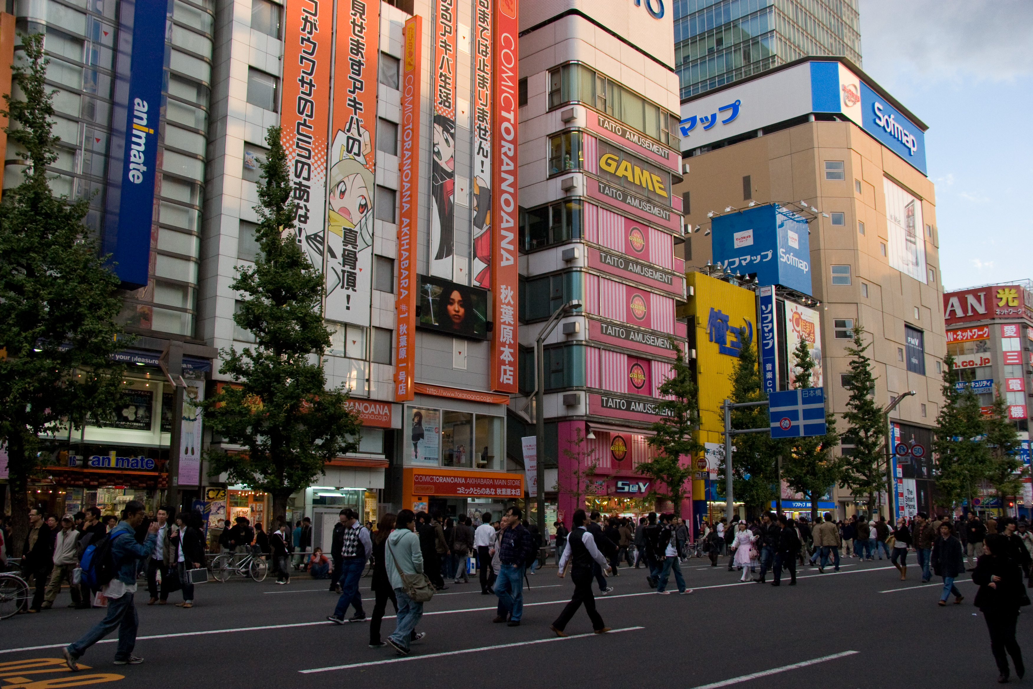 Akihabara